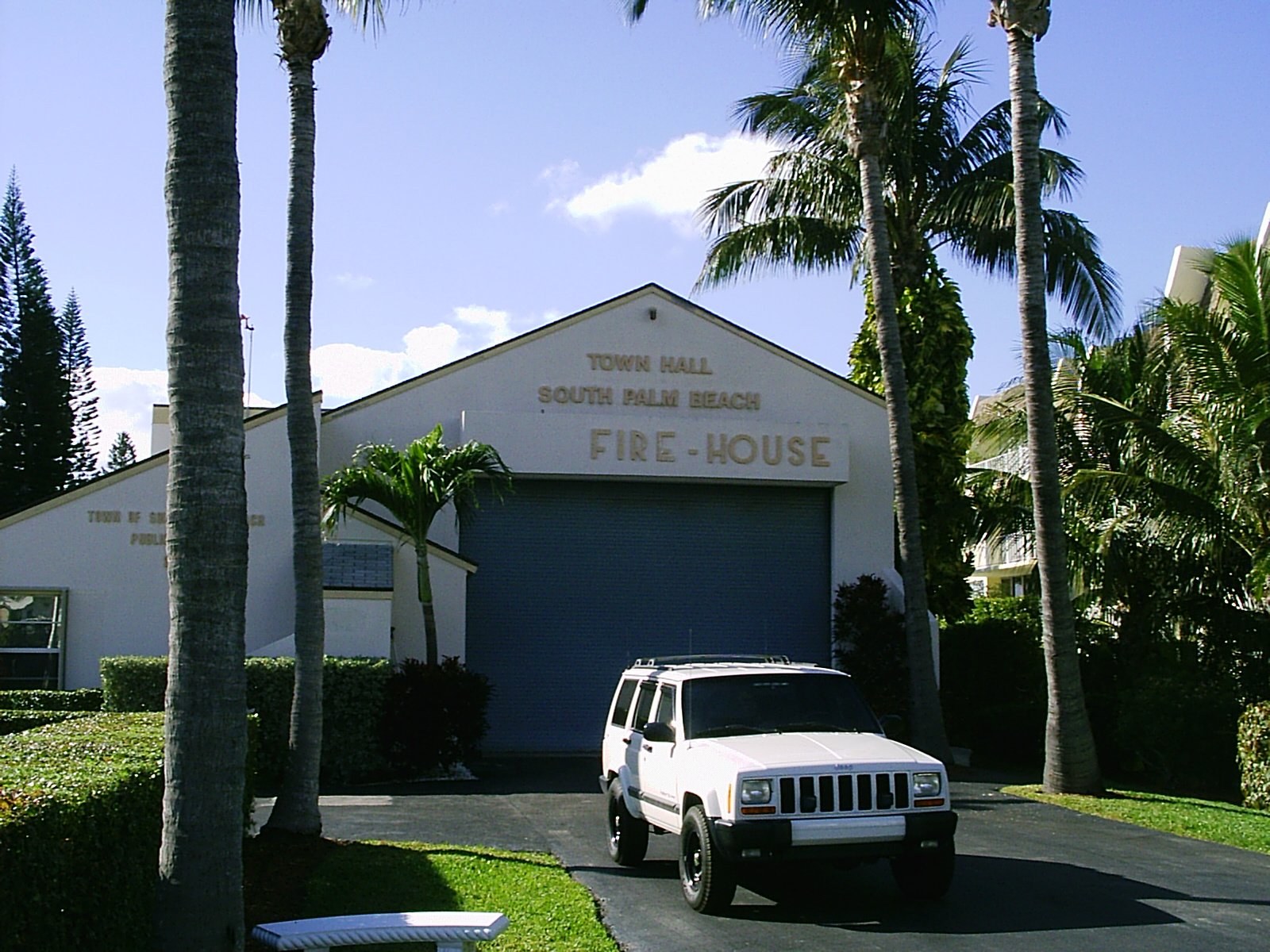 South Palm Beach, Florida. View of the front of the combined town hall, police department, and fire station building. The town's police Jeep Cherokee is parked in the driveway.